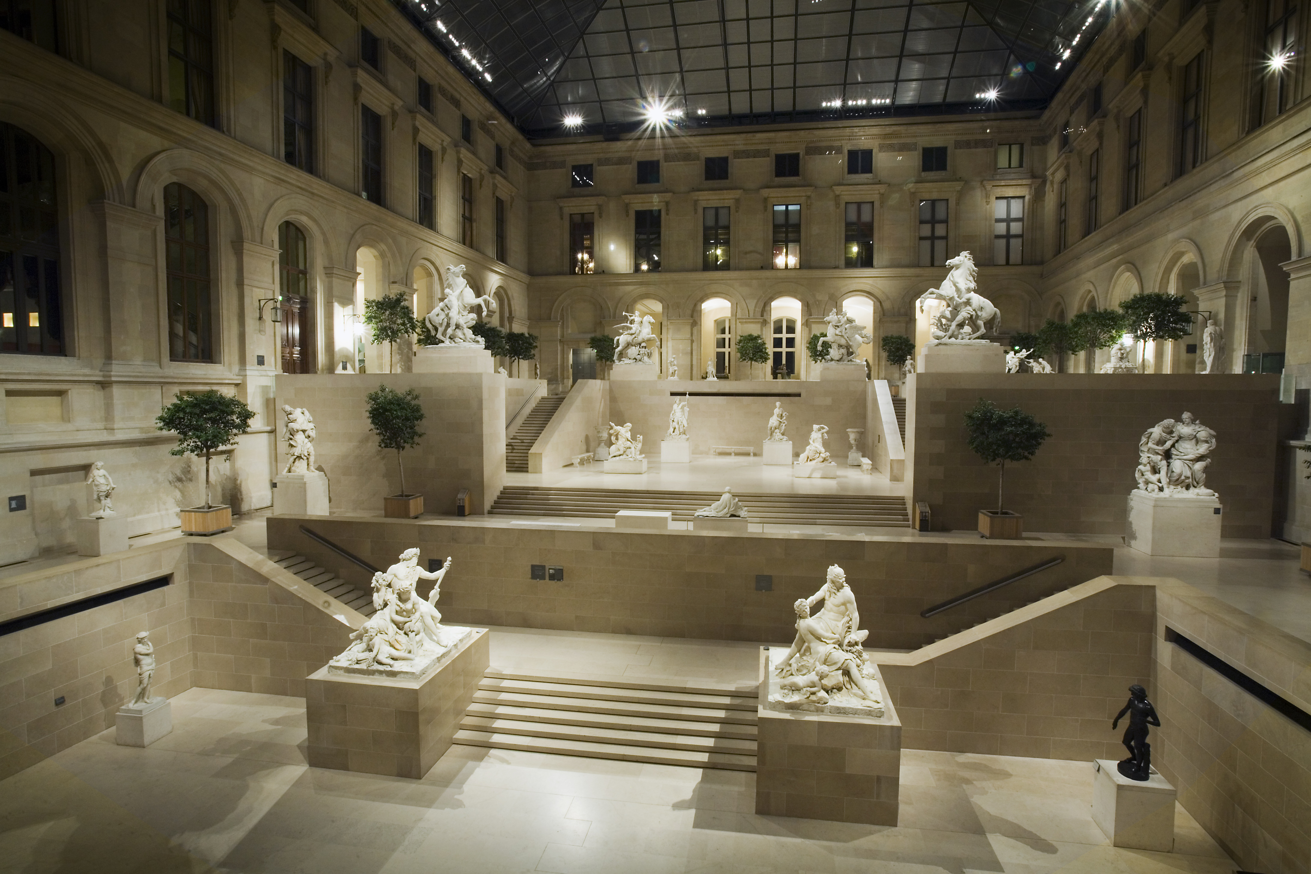 View toward the west of the Cour Marly in the Richelieu wing of the Musée du Louvre by night, Paris